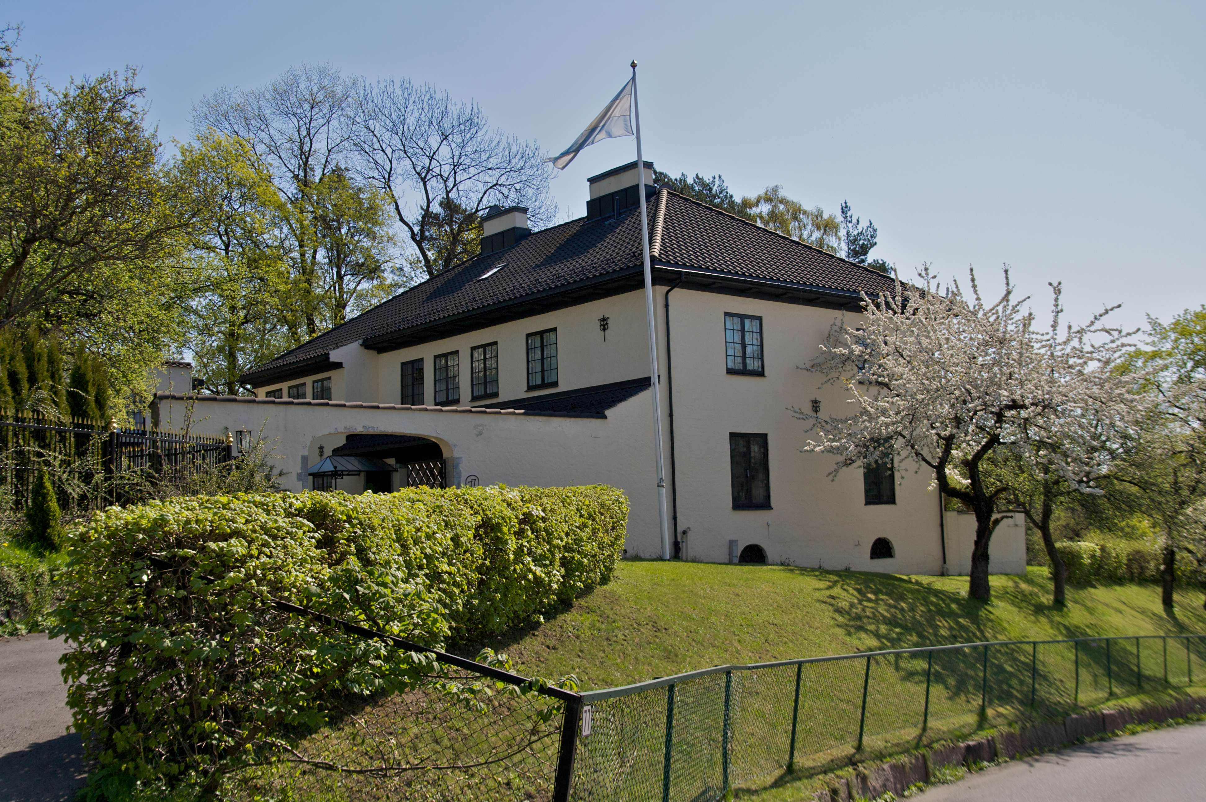 Bygdøy allé 77 in Oslo. Architect Arnstein Rynning Arneberg.